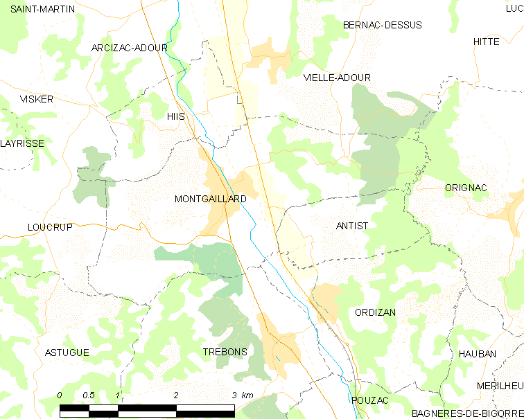 Map of French municipality